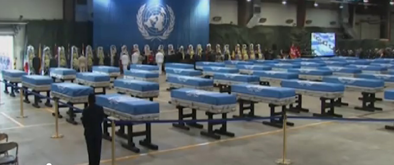 US Military Flying Remains of Korean War 1950-53 Turned Over by North Korea to Hawaii after Trump-Kim summit